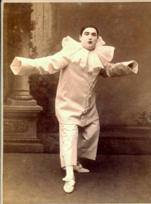 Canio, Paillasse